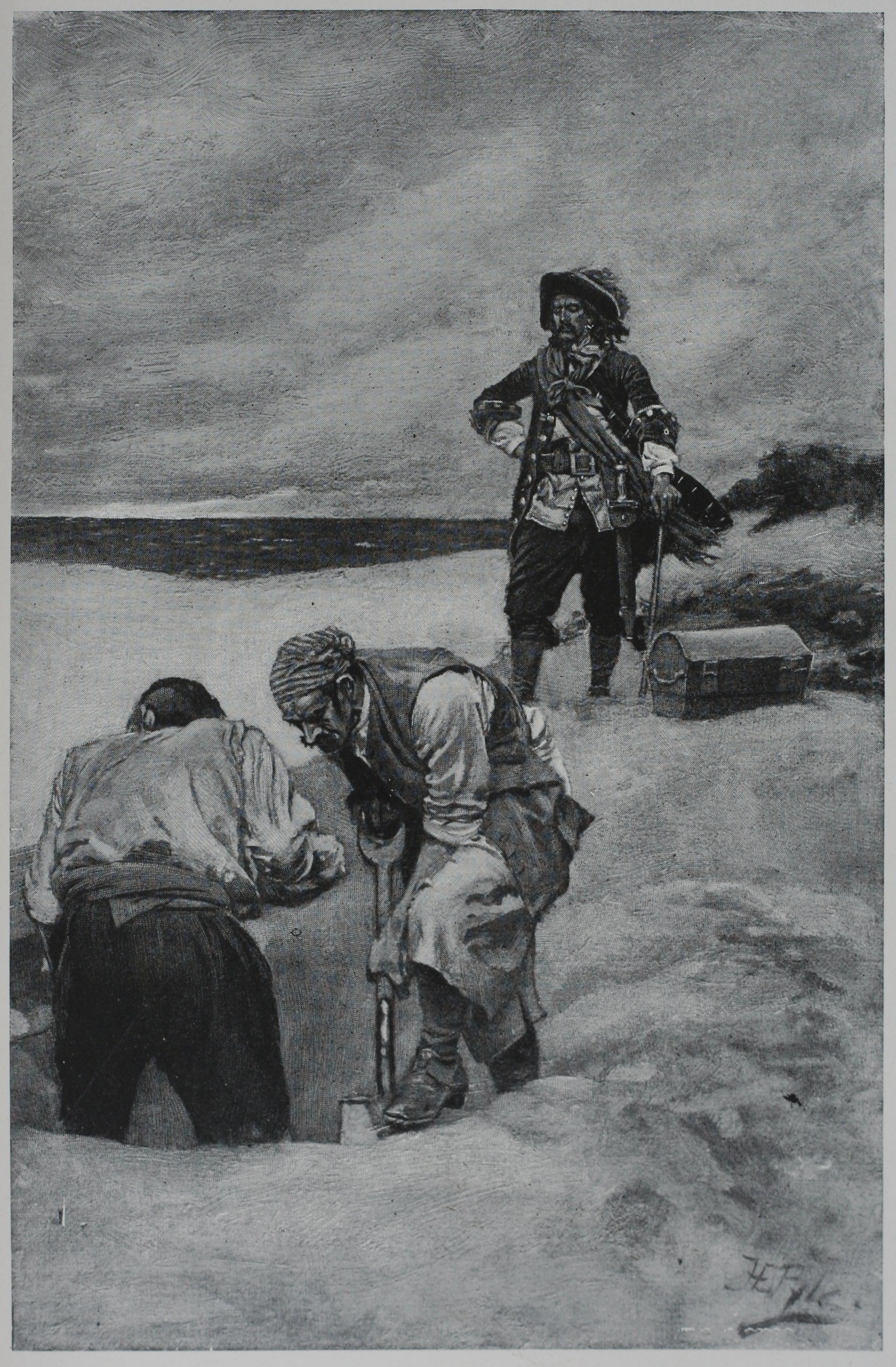 Kidd at Gardiner's Island: illustration of pirate captain William Kidd's supervision of the burial of his treasure at Gardiner's Island